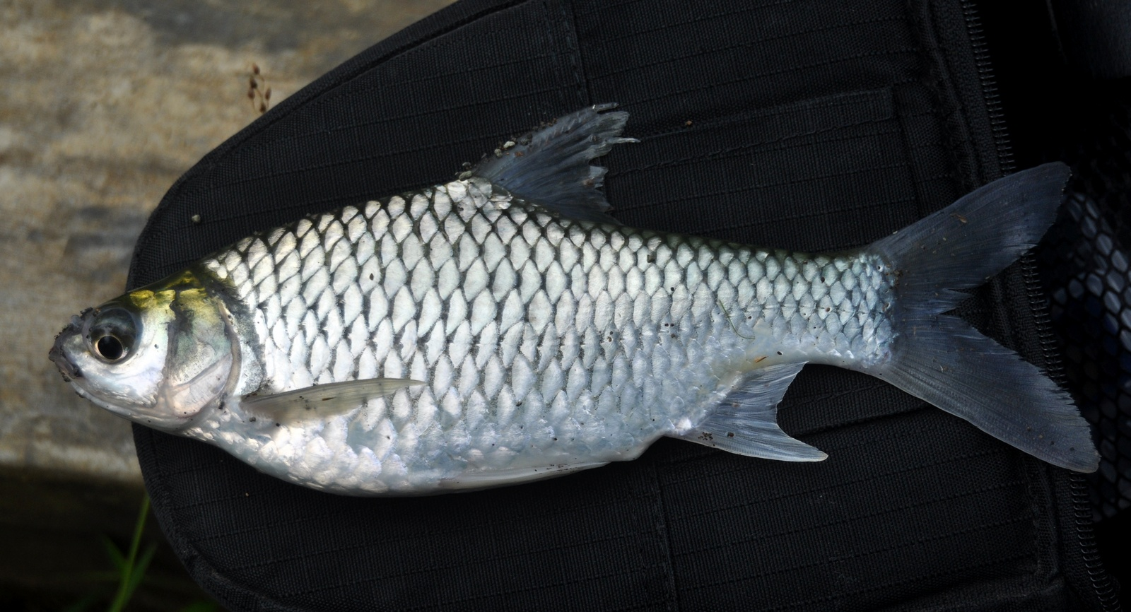 Tawes (Barbonymus gonionotus), 178mm SL; from Tasikmalaya, West Java, Indonesia.